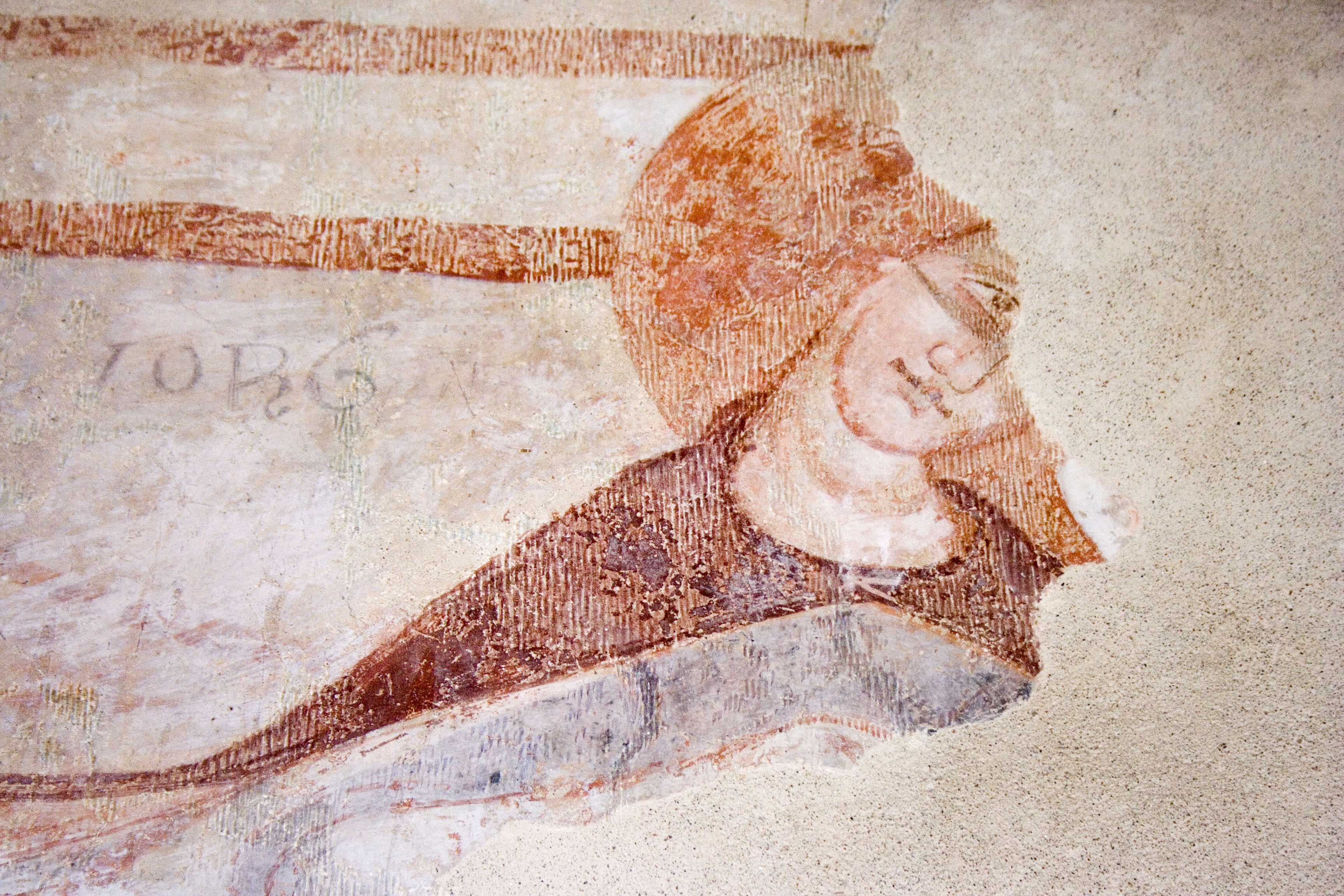 Hungary, County Zemplen, Vizsoly Reformed Romanesque church - interior mural detail XIV century wall mural